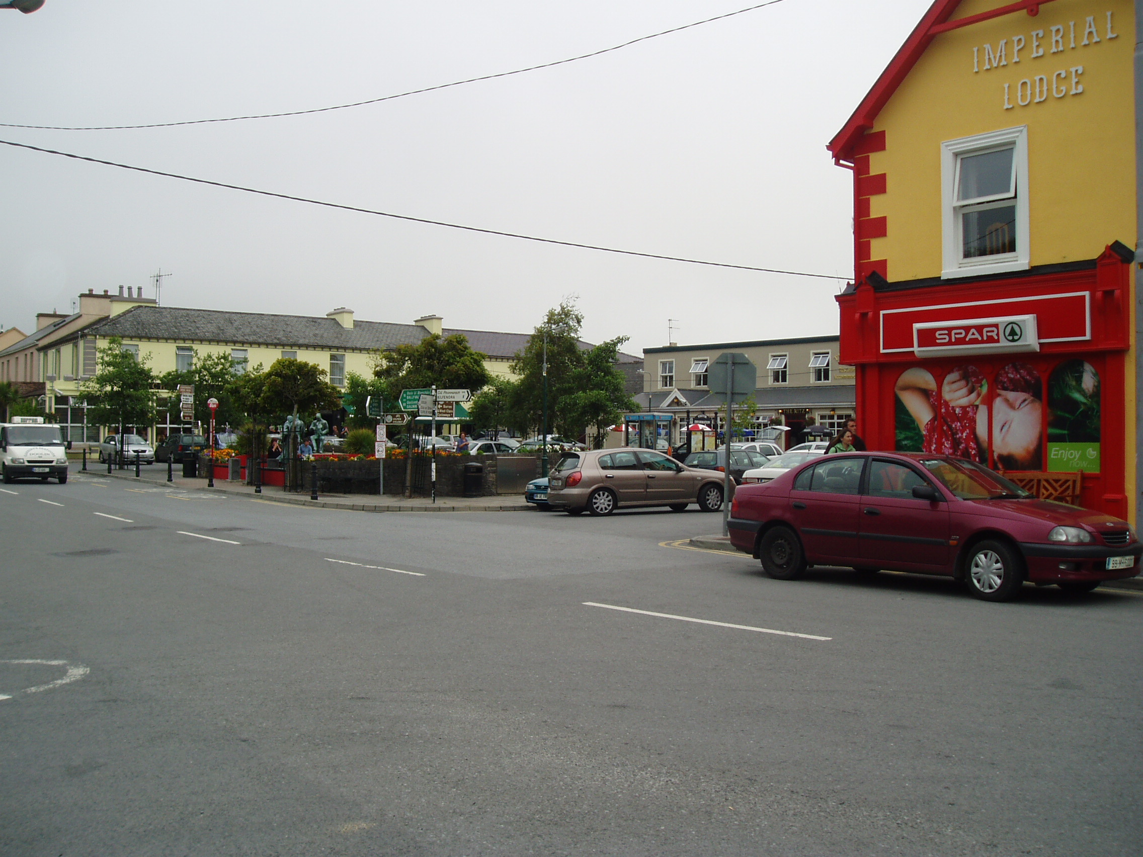 Lisdoonvarna town centre, County Clare, Ireland